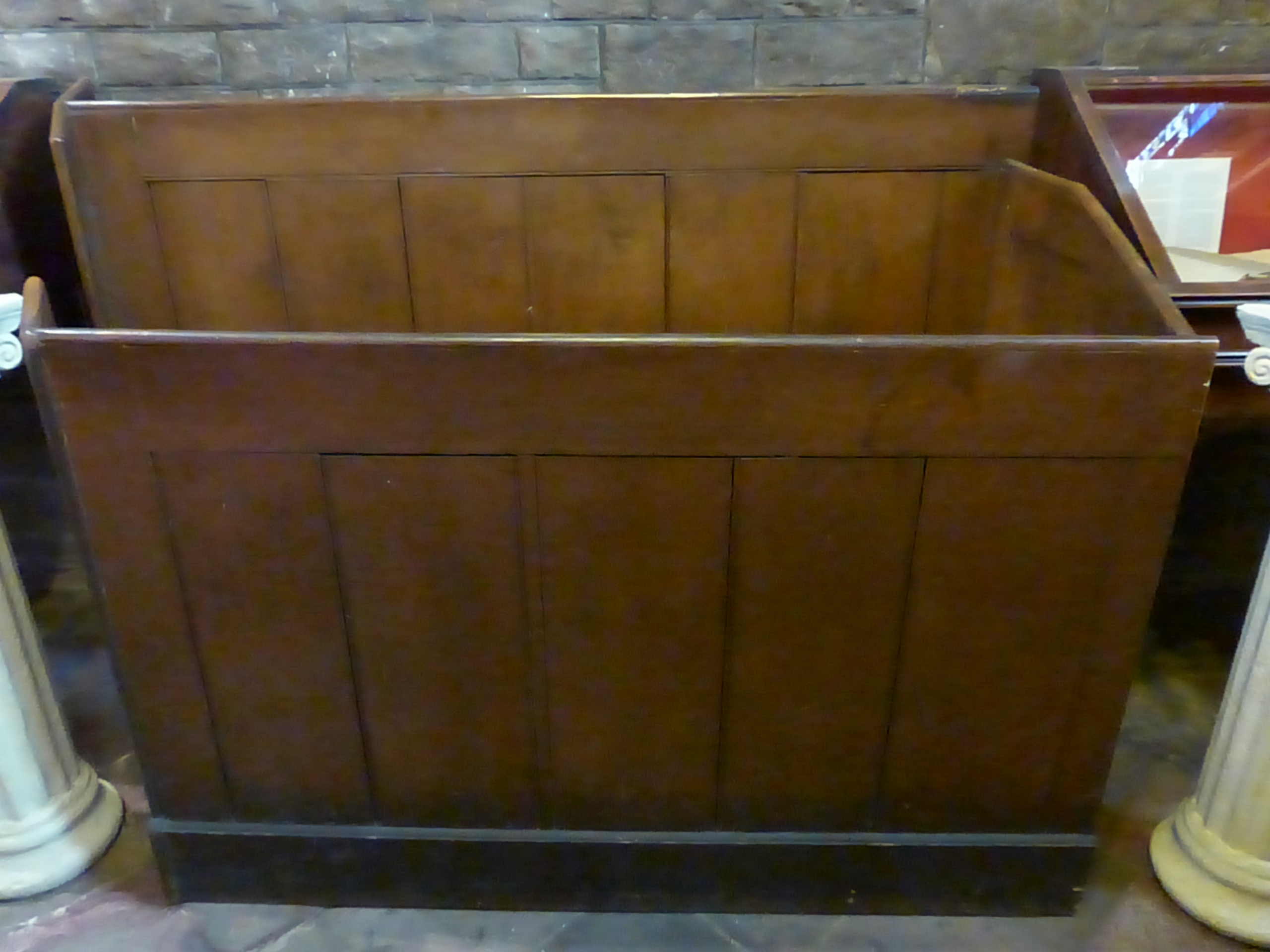 Sir Walter Scott's pew, from St. George's Church, York Place, now in St. Mary's Cathedral (Episcopal), Edinburgh